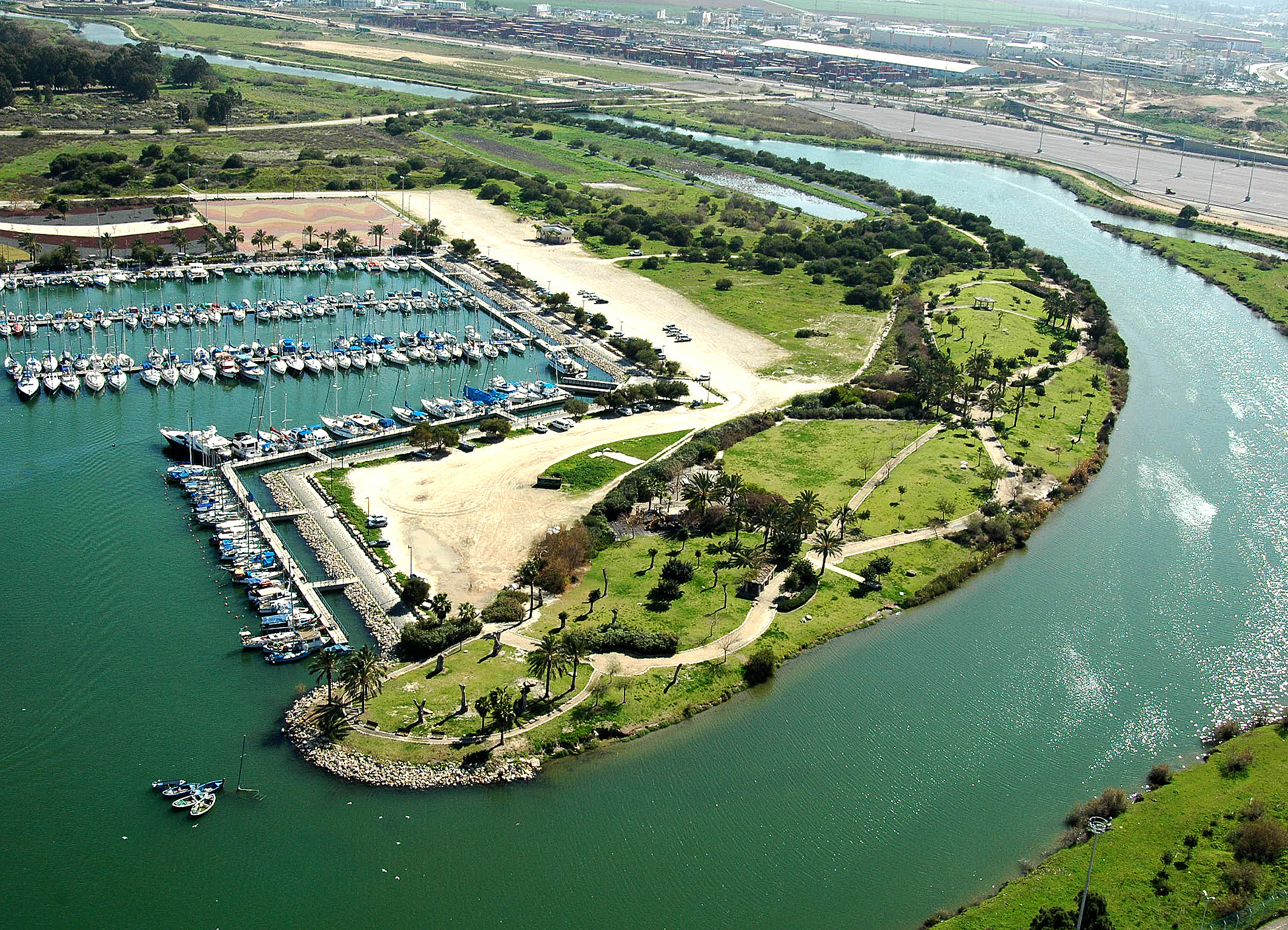 Fishing Harbor, Haifa